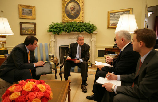 President George W. Bush goes over a draft of tonight's address to the nation with members of the White House speechwriting staff Thursday, Sept. 13, 2007, in the Oval Office. With him, from left, are: Marc Thiessen, Bill McGurn and Christopher Michel. White House photo by Eric Draper